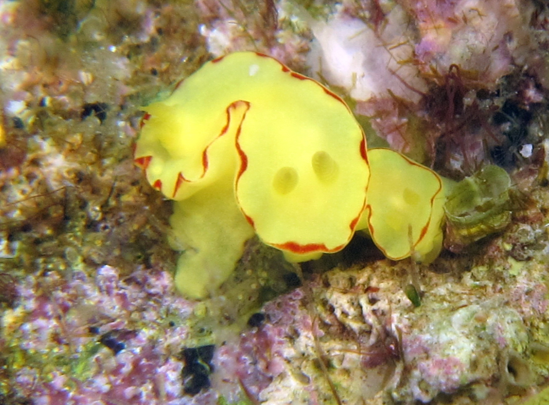 Diversidoris flava (Eliot, 1904) (synonym: Noumea flava), 5 feet, Anilao Philippines